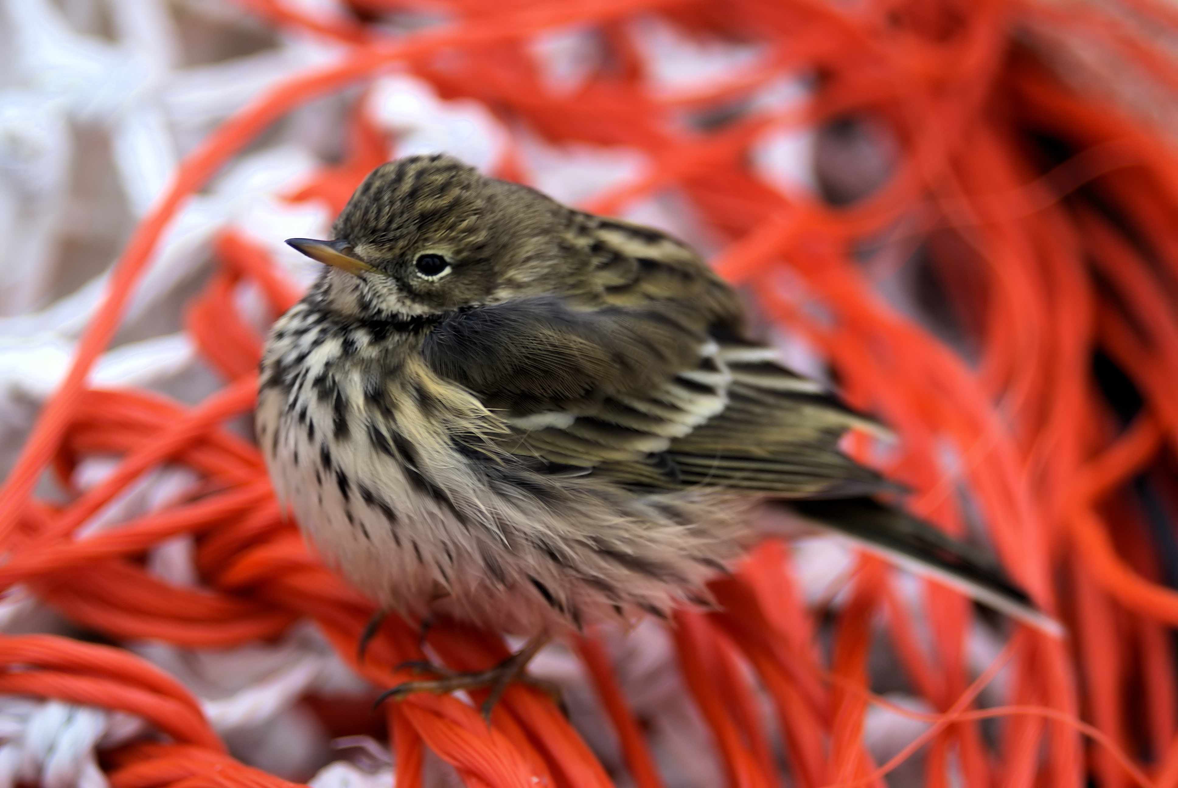 Meadow Pipit at sea, resting on board during autumn migration. Just outside the north-eastern border of the Belgian part of the North Sea (Dutch territory).